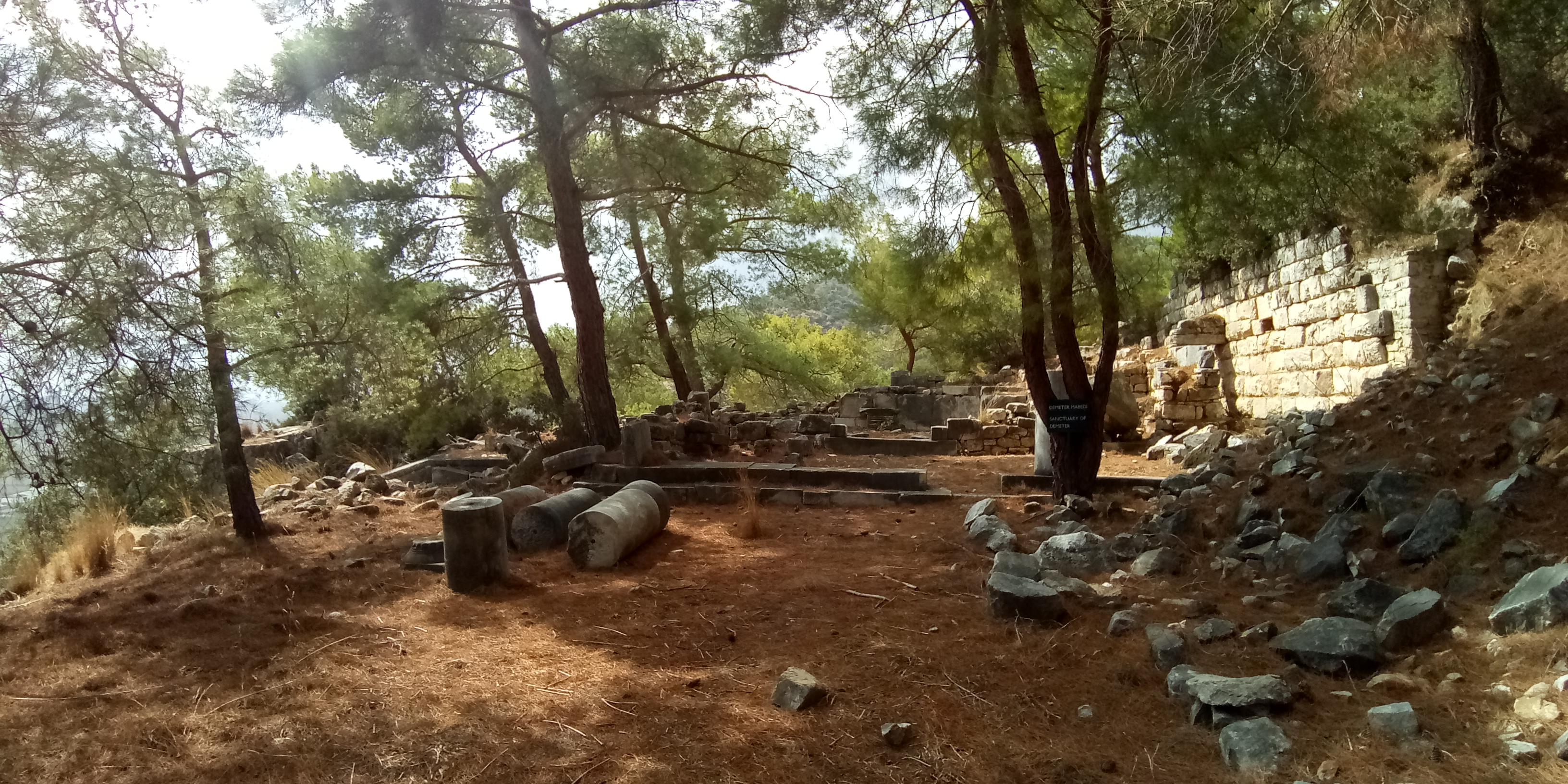 Sanctuary of Demeter Malophoros, Priene, looking west from inside the entrance